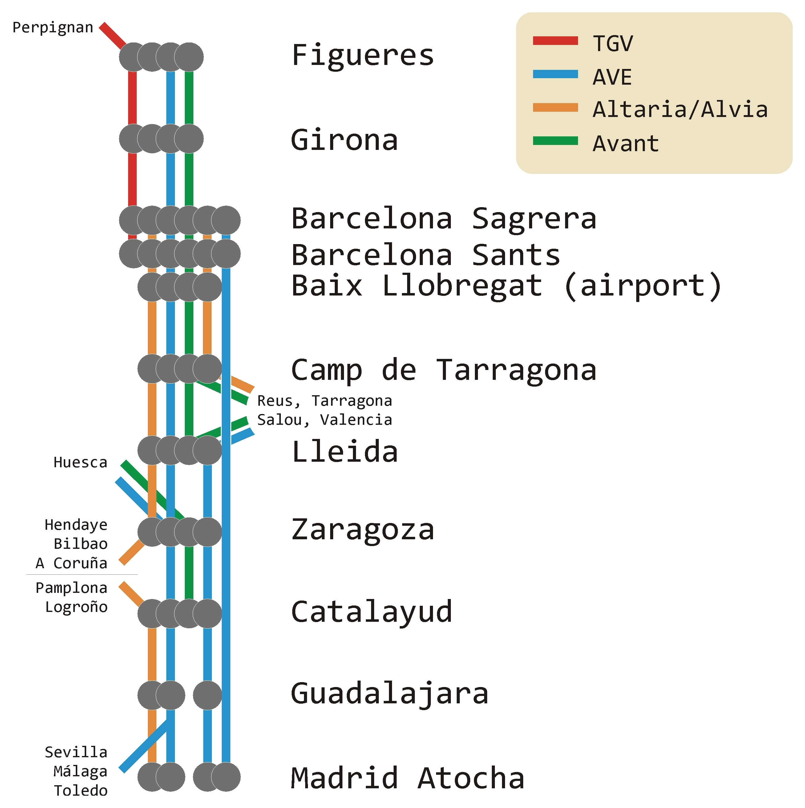 Train services on the Madrid-Barcelona high-speed railway when it will be fully completed.